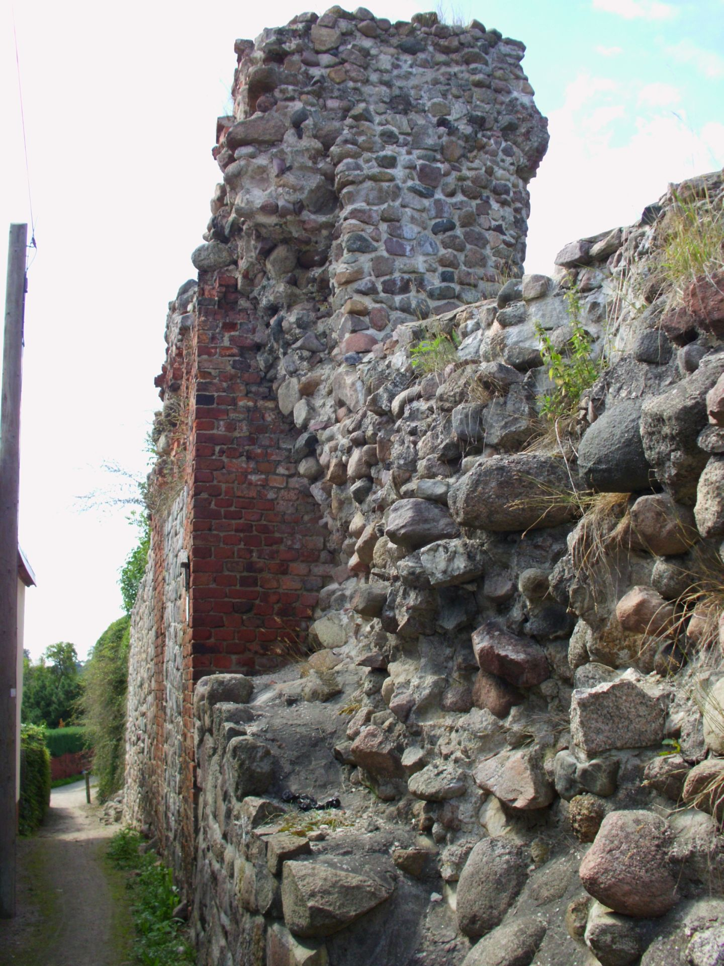 Fortress Oderberg / Bärenkasten (Bear Box) - Fort Wall